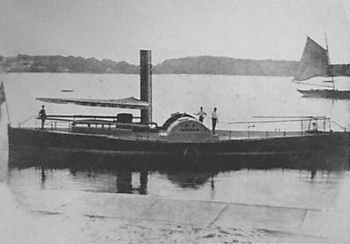 Sydney Harbour Paddle Wheel Steamer Herald used as a Ferry and Tug